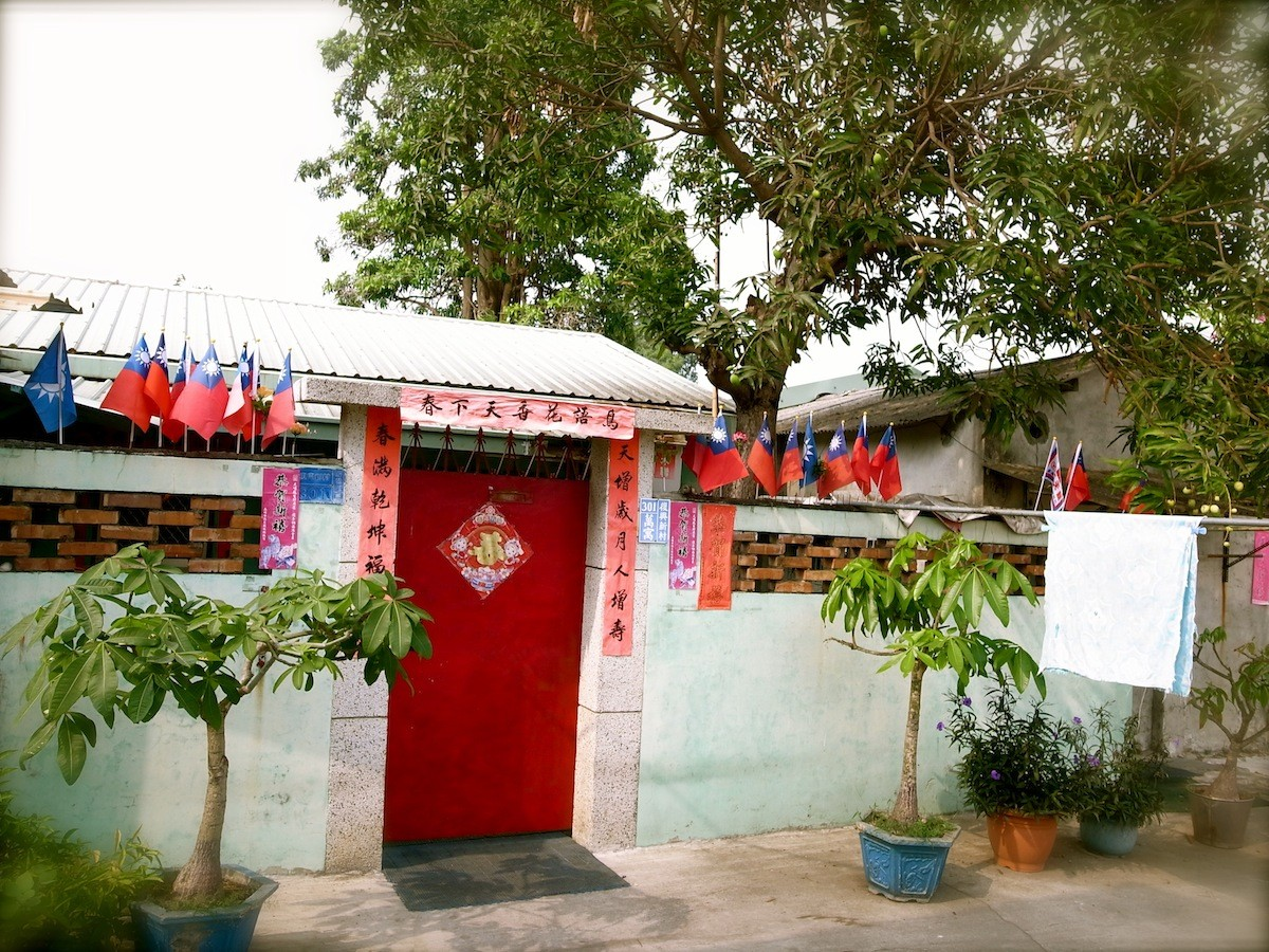 Kuomintang Military Dependents' Village in Taiwan